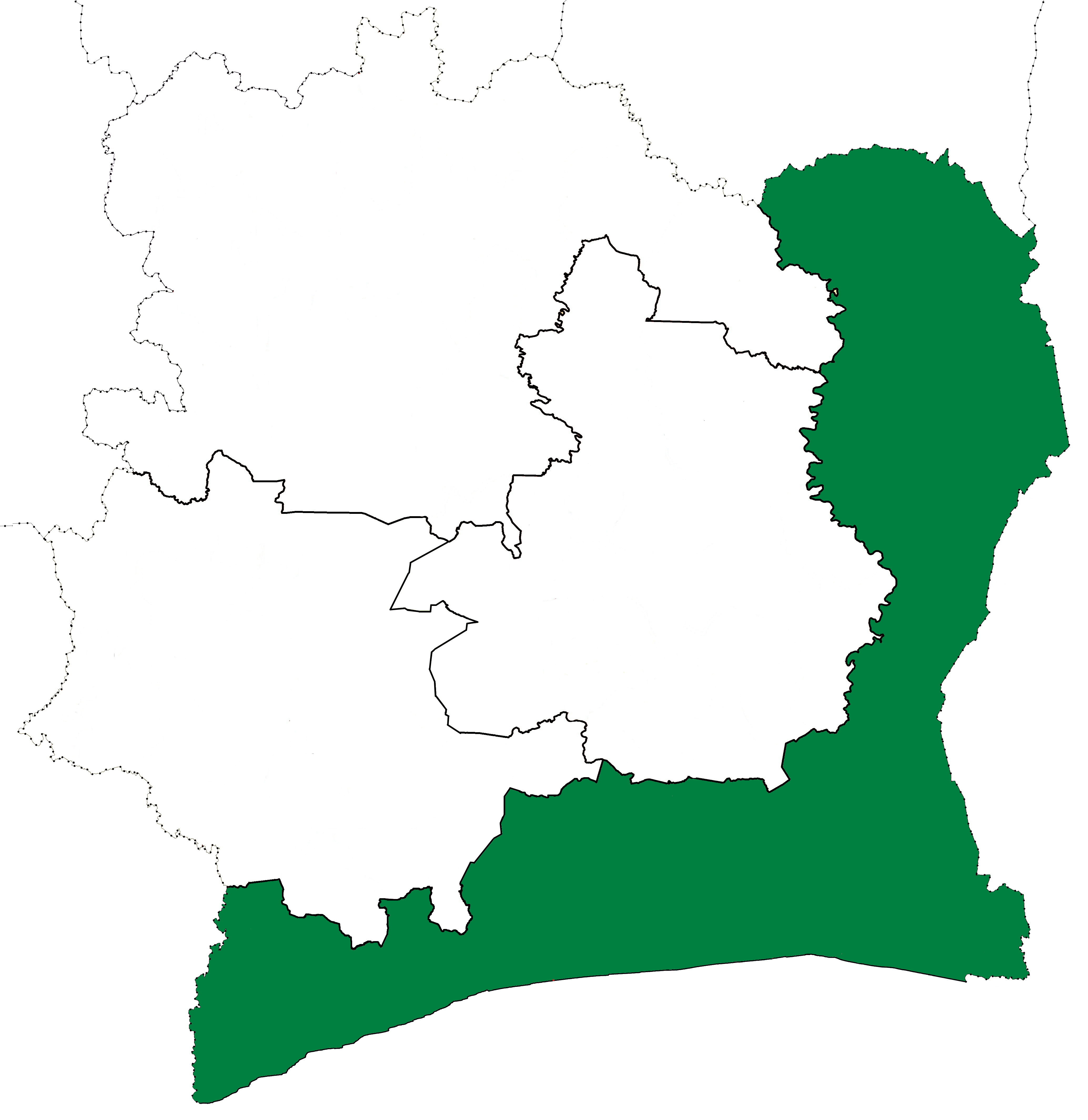 Locator map for Sud-Est Department in Côte d'Ivoire (1961–63).